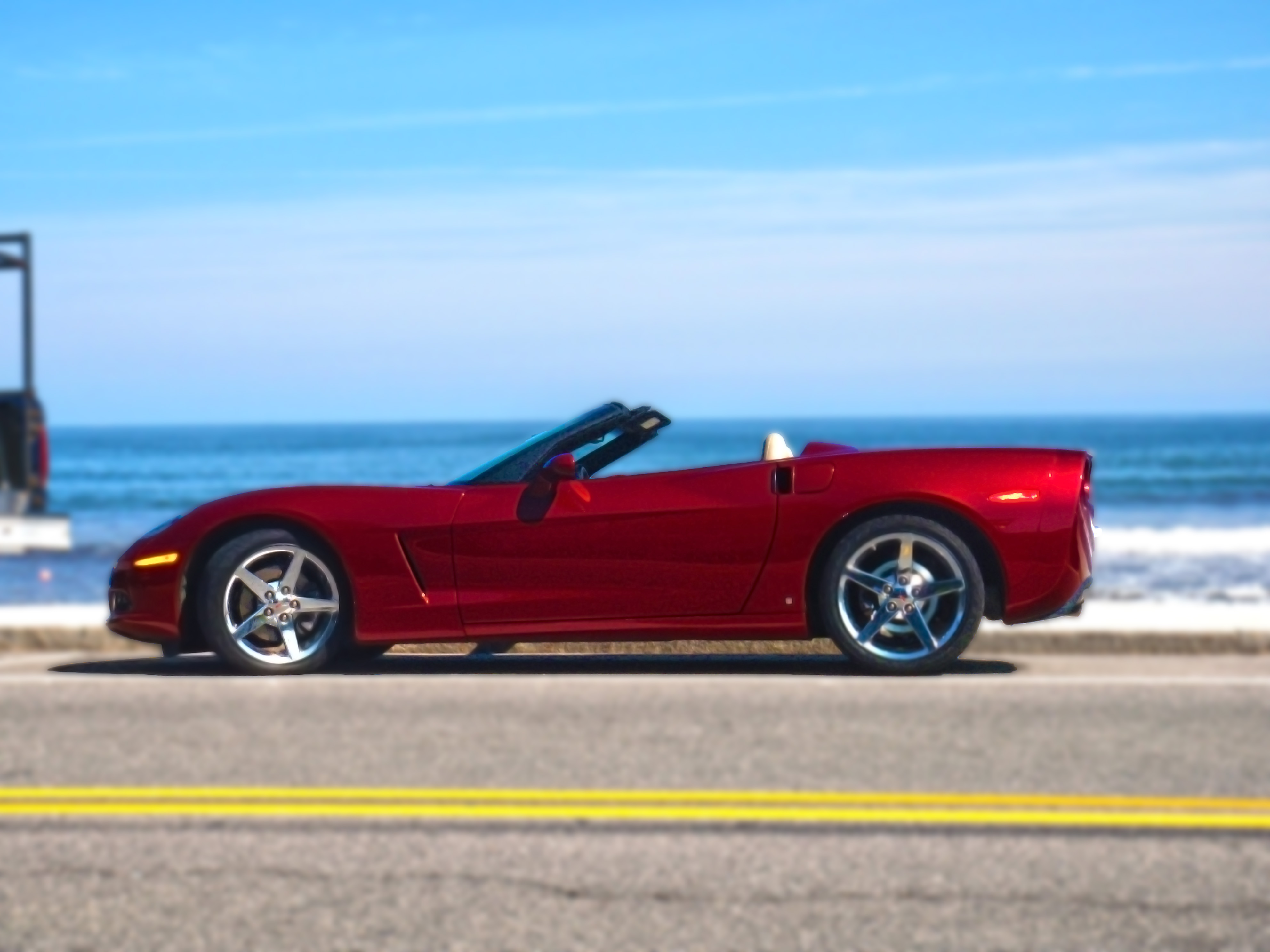 Red Corvette convertible.